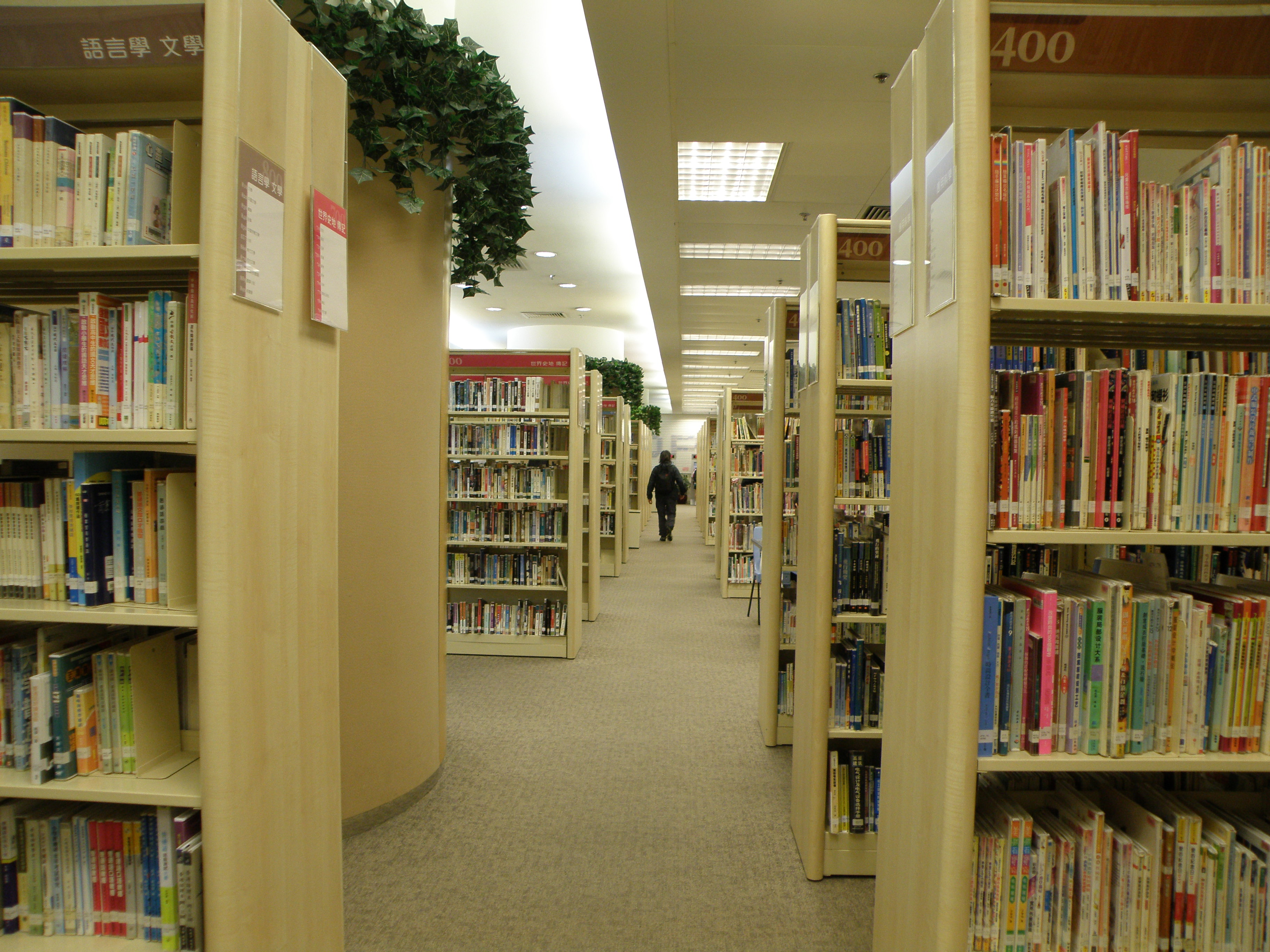 Fanling Public Library in Luen Wo Hui, Hong Kong.